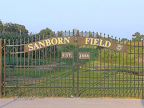 I visited this corn farm, during my visit to St. Louis city (2008)